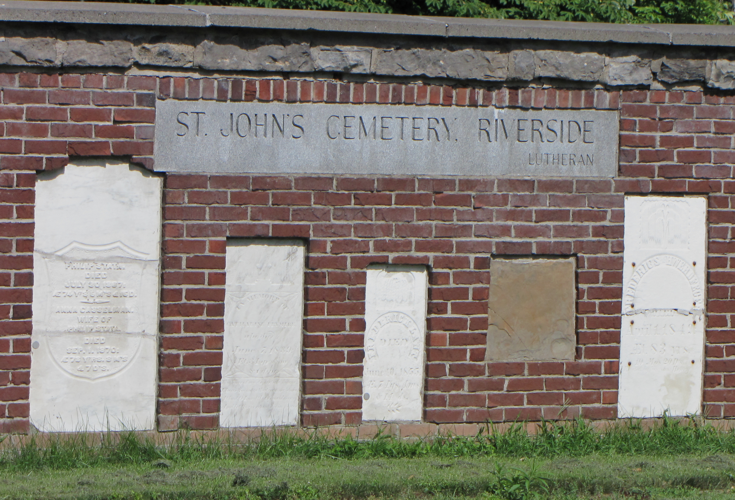 Tombstones from St. John's Cemetery, one of the flooded cemeteries, mounted in Pioneer Memorial outside Upper Canada Village, Morrisburg, Ontario, Canada